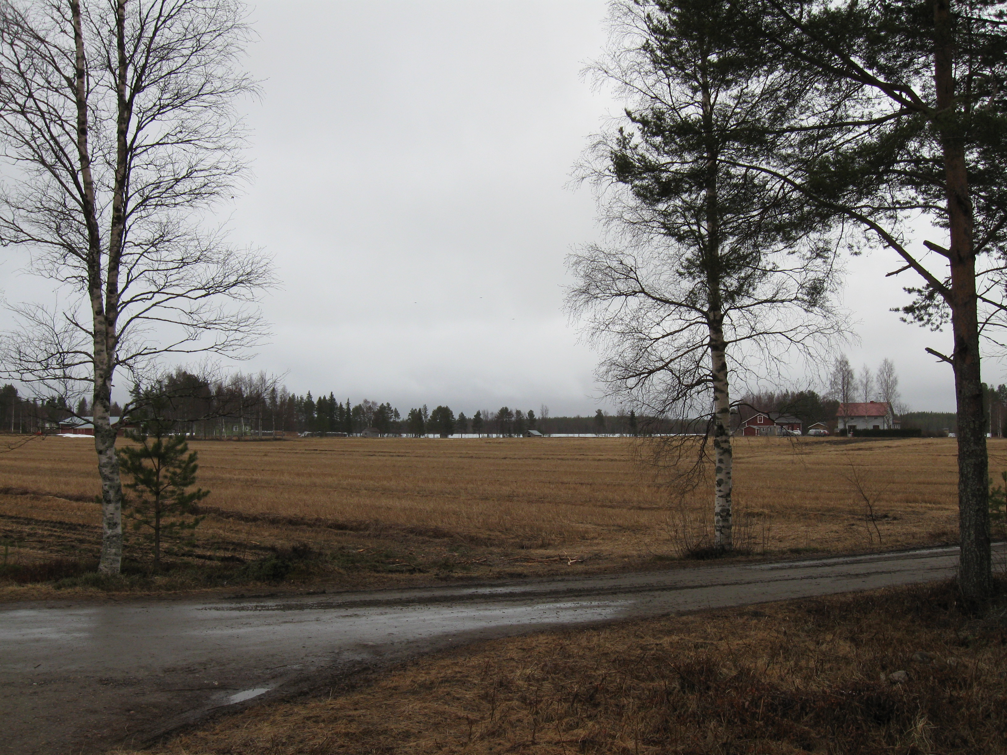 The Oterma village in Vaala, Finland: a scene towards lake Oterma and the Holapansaari island from the local road 800.